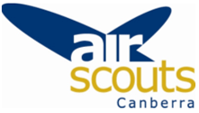 Air Scout Canberra logo